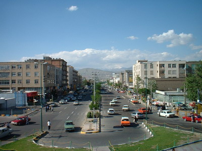 City of Karaj, Iran